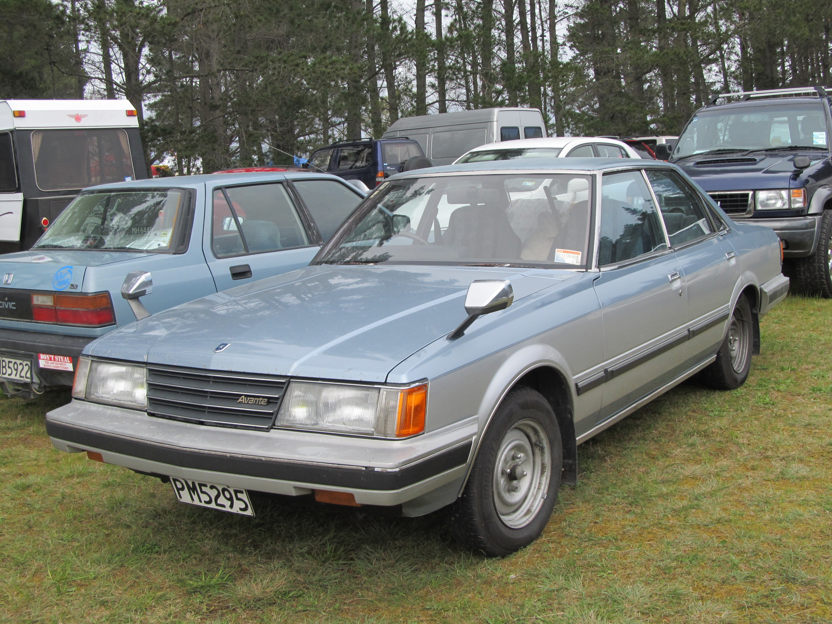 A fantastic original old JDM cruiser. As expected it had a superb blue velvet interior and was even a 5 speed manual!